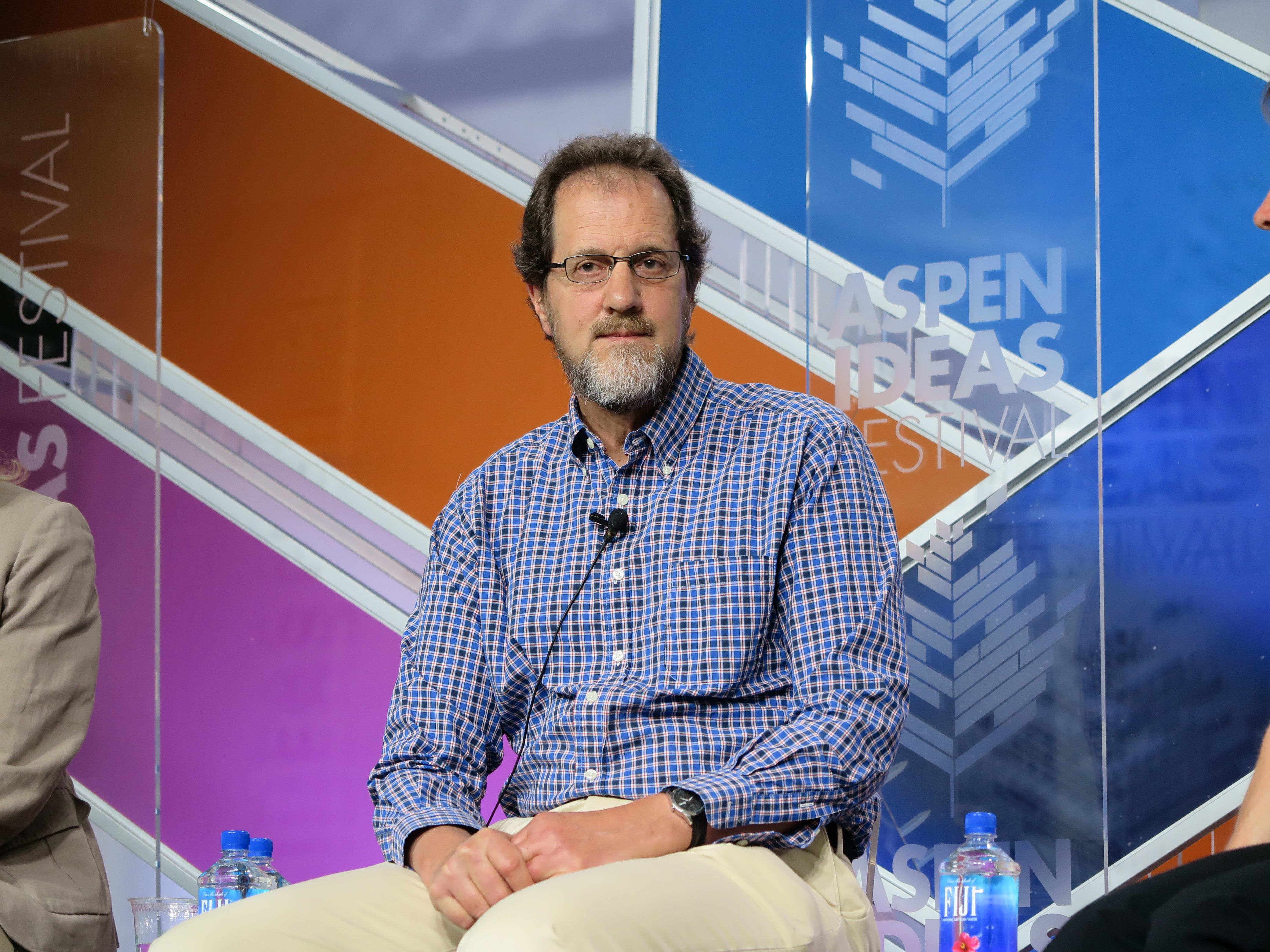 H. Gilbert Welch at Spotlight Health Aspen Ideas Festival 2015